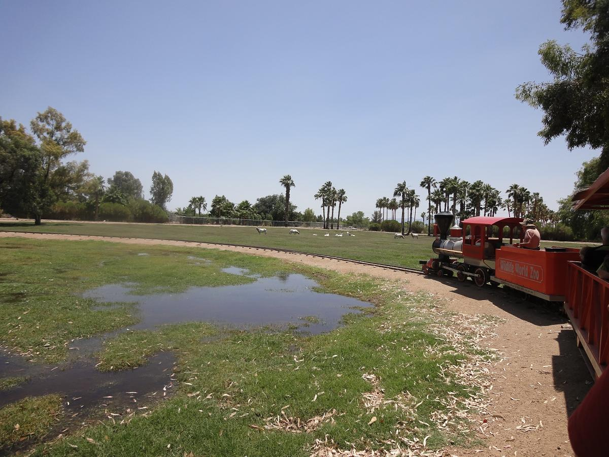 Author: Kirs10 Date taken: May 22, 2011